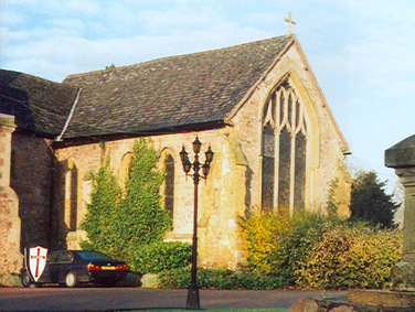 A cropped version of